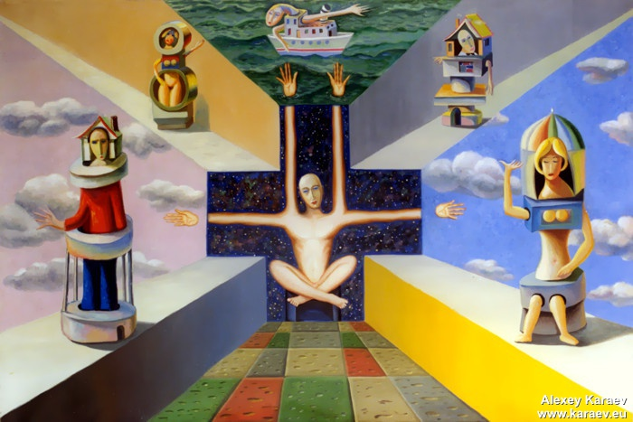 Painting from Series 13, of Alexey Karaev.